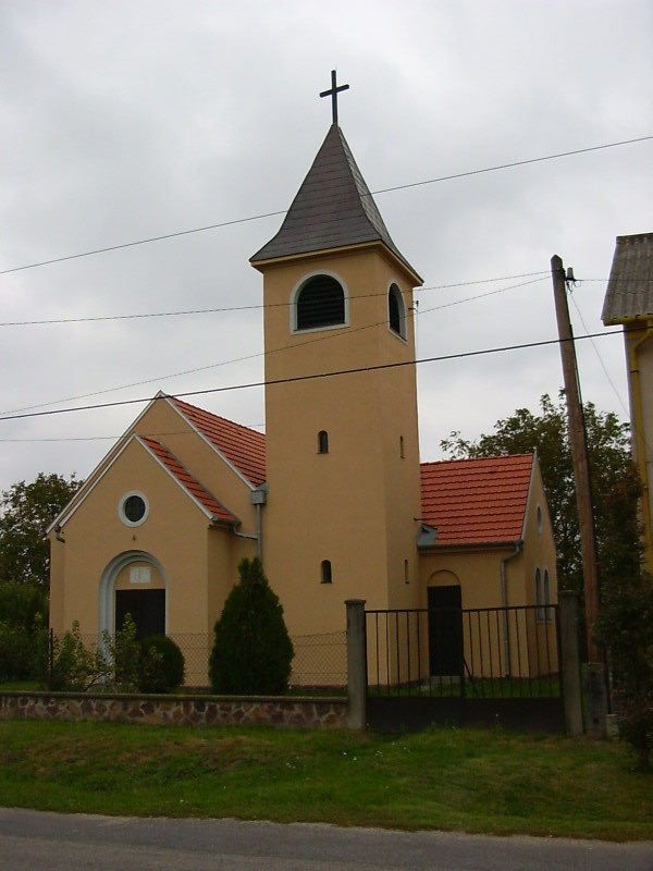 Lutheran church in Börcs, built 1951-1960